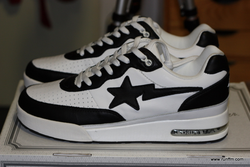 A pair of A Bathing Ape Roadstas